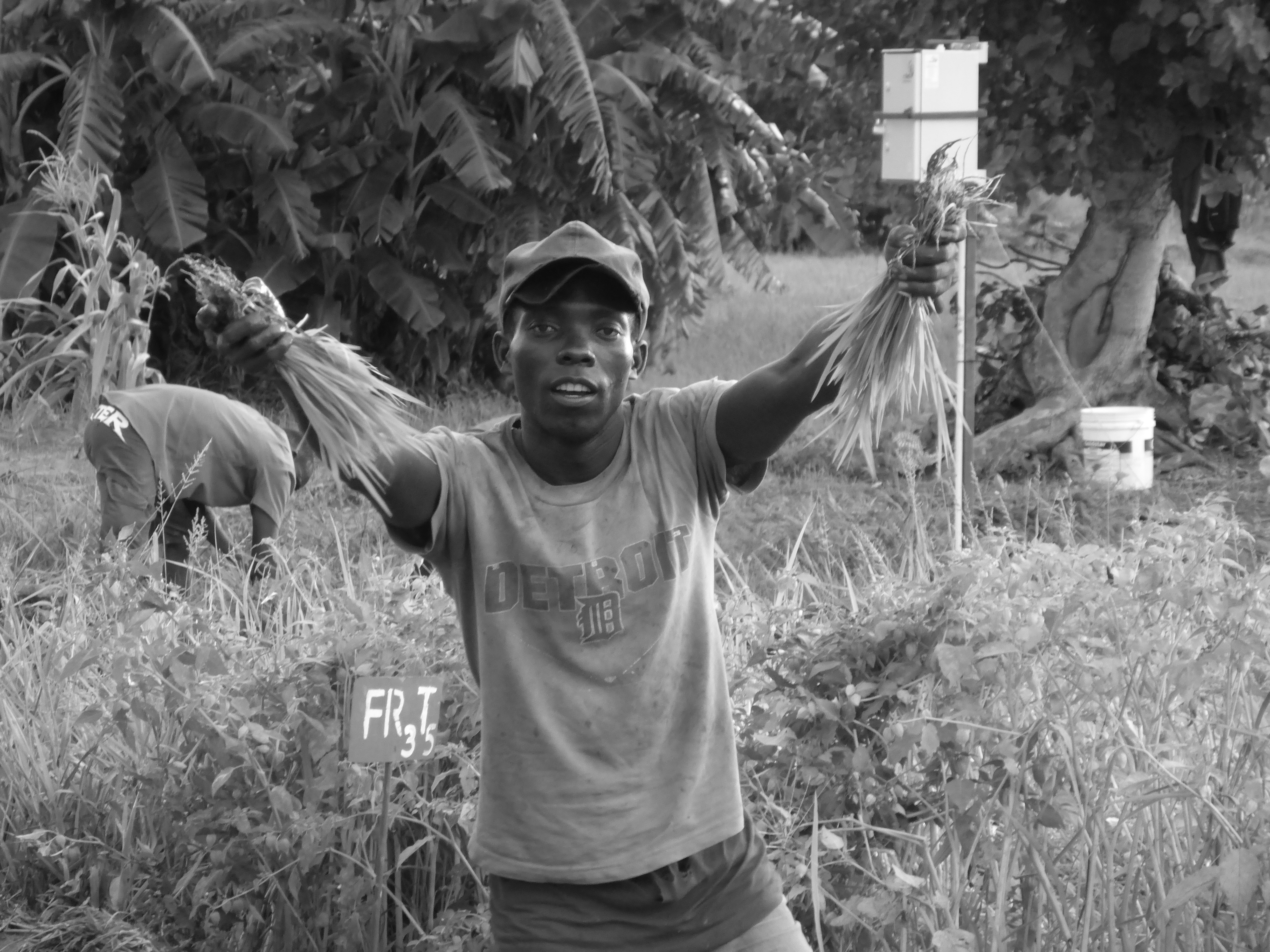 The work of rice transplanting is generally done by women. through my research we have had men training in transplanting and they are doing it first and better than women. This is an image of "African people at work" from Tanzania